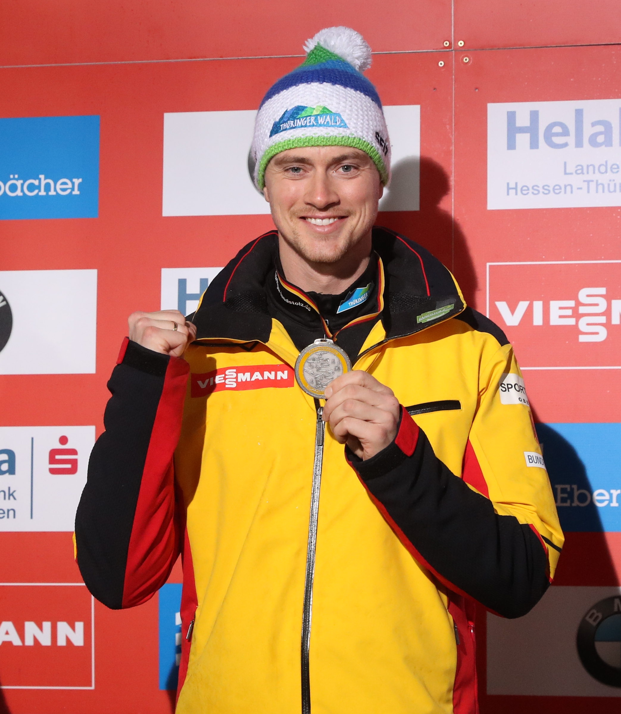 Victory Ceremonies (Doubles and Men's) at Saturday at the 2019/20 Oberhof Luge World Cup